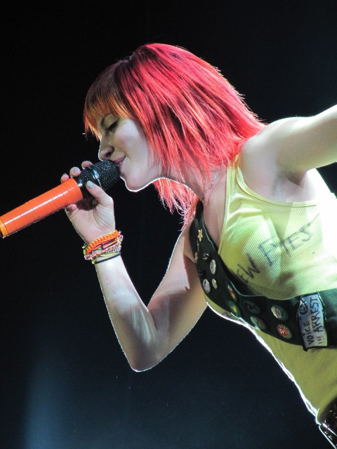 Paramore at Honda Civic Tour 2010